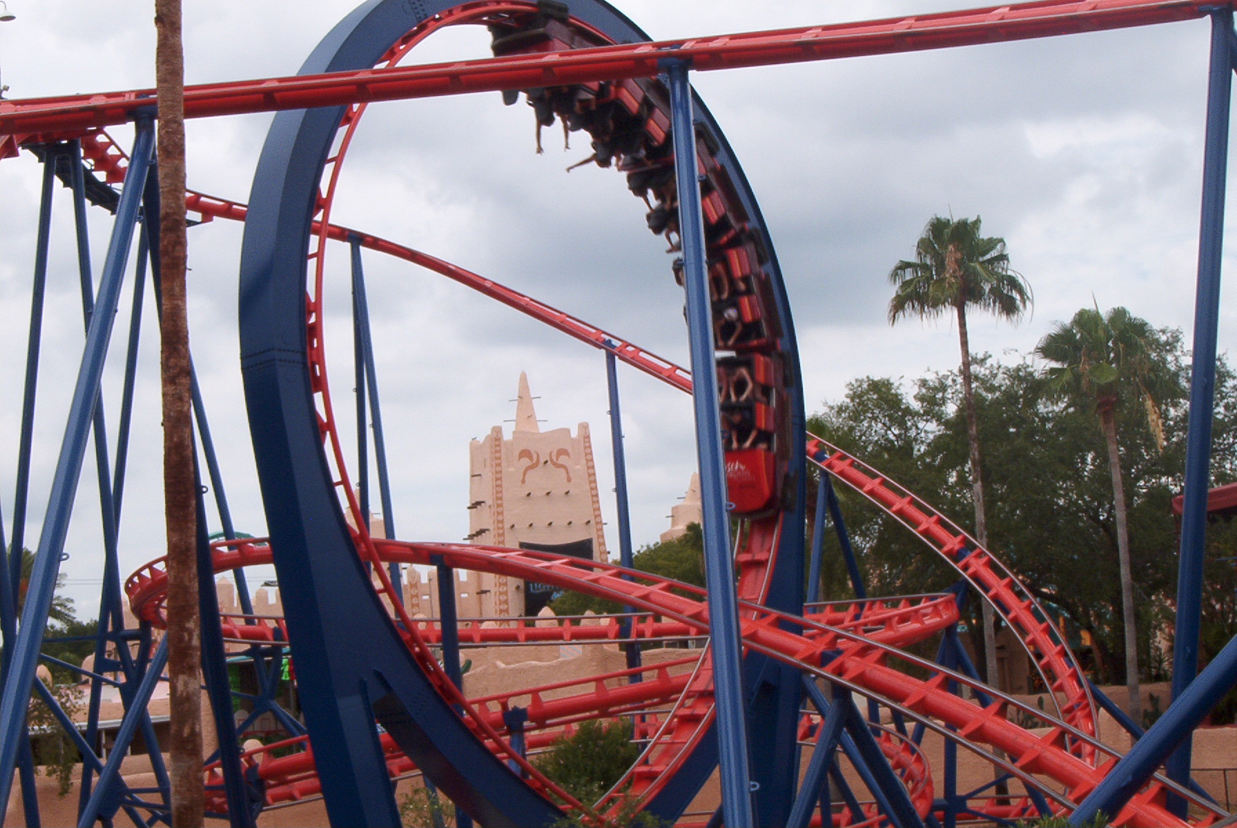 Scorpion traversing the signature element, the vertical loop.